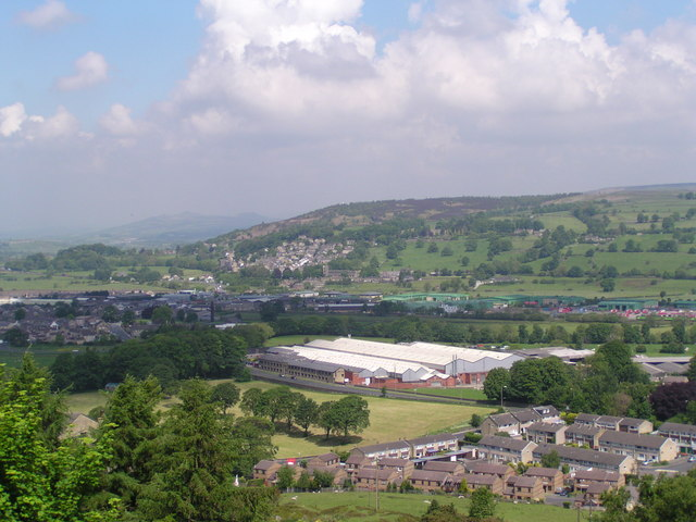 Routeways in the Aire Valley above Eastburn Bridge In the foreground is the B6265, the old turnpike, travelling over the Holme Beck towards its junction with A629(T), the new arterial road. A train is using the railway line that runs between Leeds and Skipton, and in the distance, to the right of Kildwick church barges can be seen on the Leeds and Liverpool Canal.